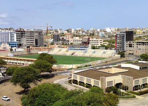 View of Várzea soccer field and other buildings.